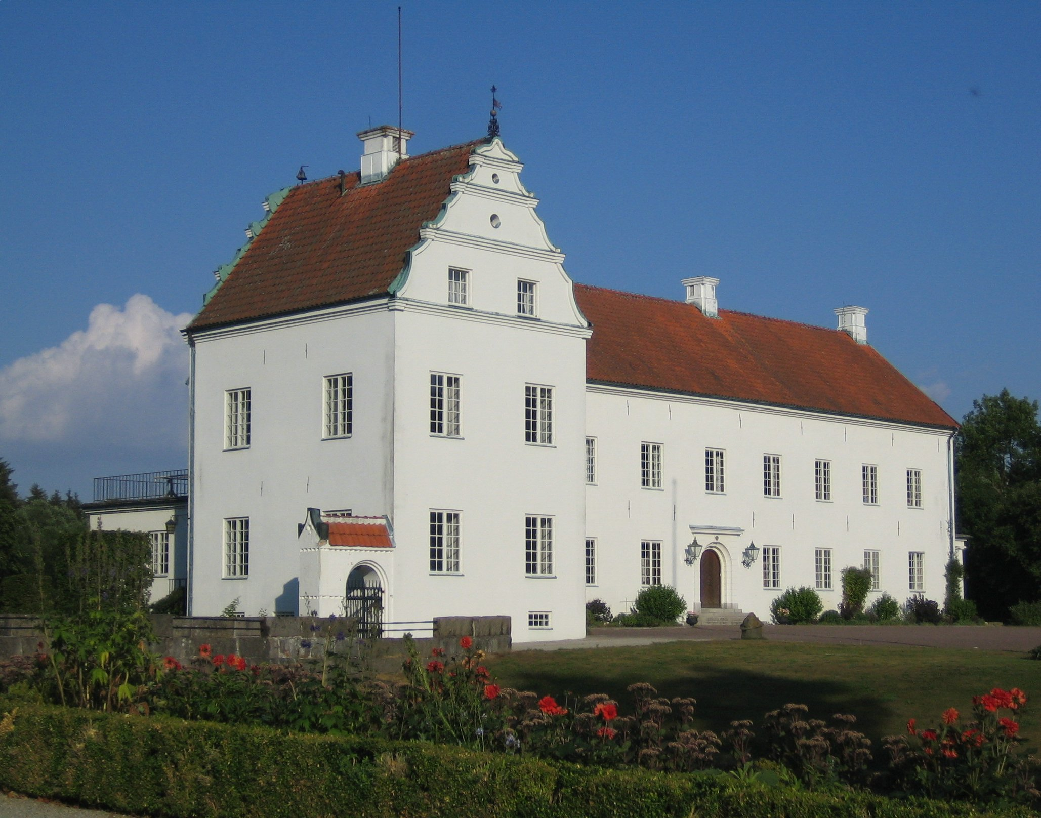 Picture of Ellinge castle in Scania, Sweden.